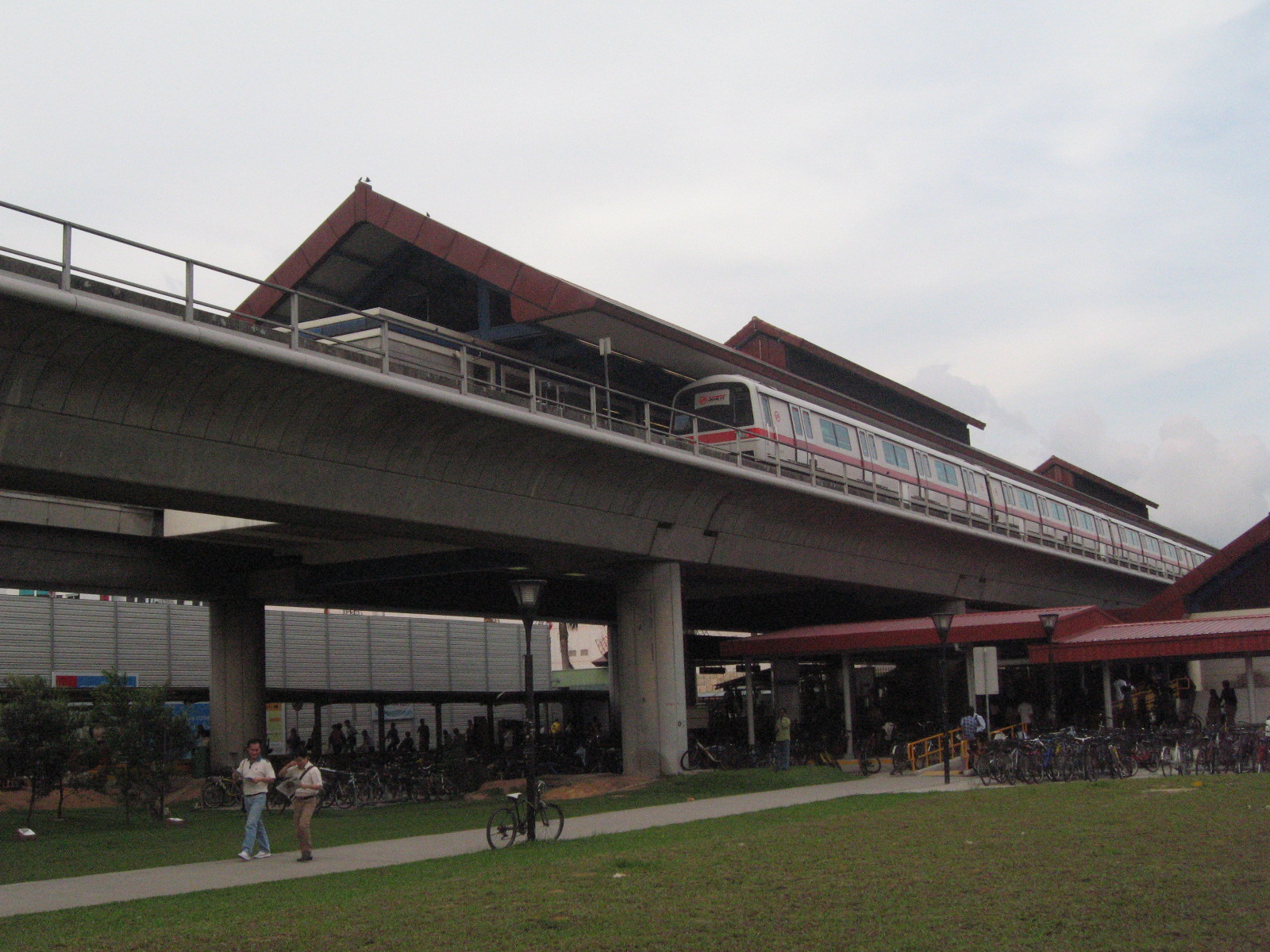 Boon Lay MRT Station, Singapore. Taken by Terence Ong in November 2006.